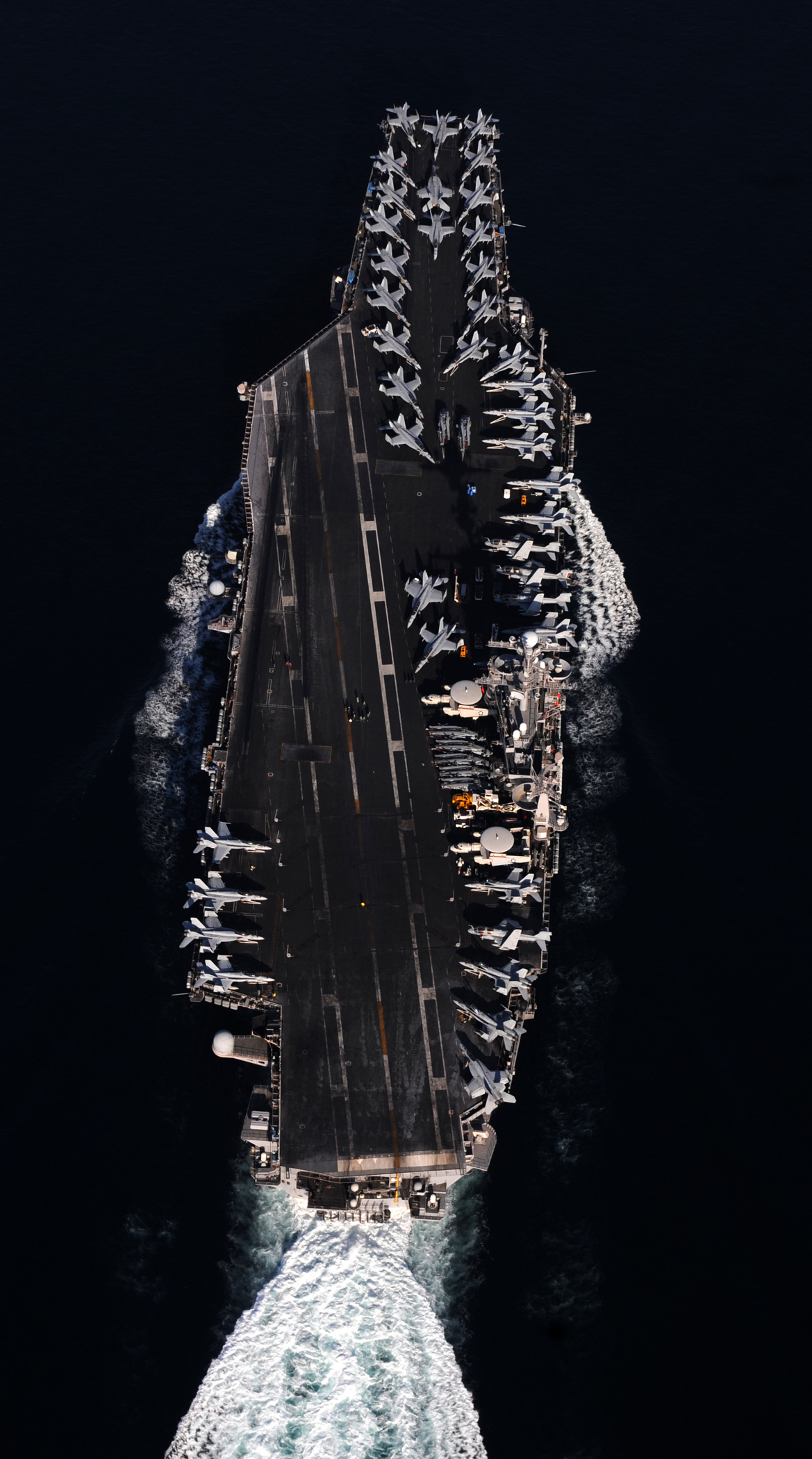 STRAITS OF HORMUZ (Nov. 12, 2011) The Nimitz-class aircraft carrier USS John C. Stennis (CVN 74) steams through the Straits of Hormuz. John C. Stennis is deployed to the U.S. 5th Fleet area of responsibility conducting maritime security operations and support missions as part of Operation Enduring Freedom and New Dawn. (U.S. Navy photo by Mass Communication Specialist 3rd Class Kenneth Abbate/Released) 111112-N-OY799-278